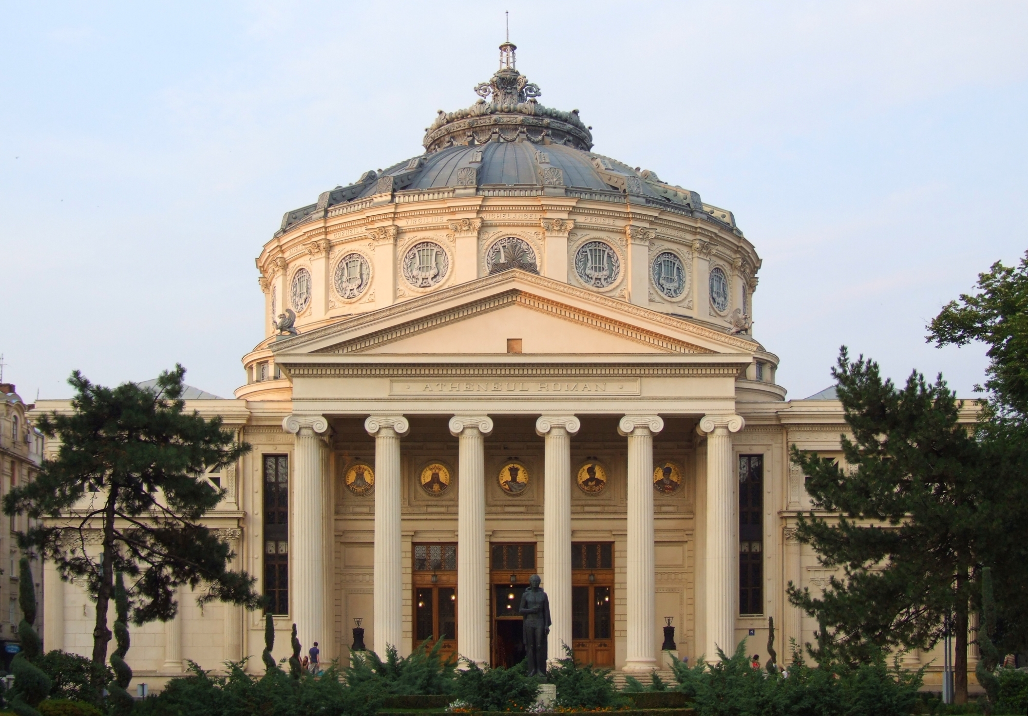 Ateneul Român (Romanian Athenaeum) in the evening, Bucharest